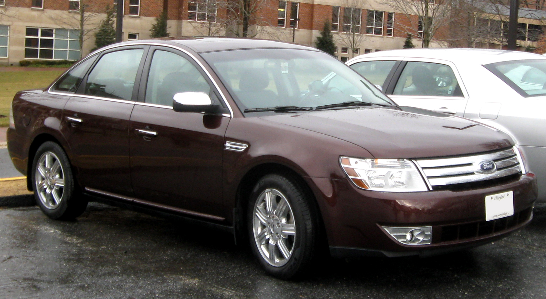 2008-2009 Ford Taurus photographed in College Park, Maryland, USA.